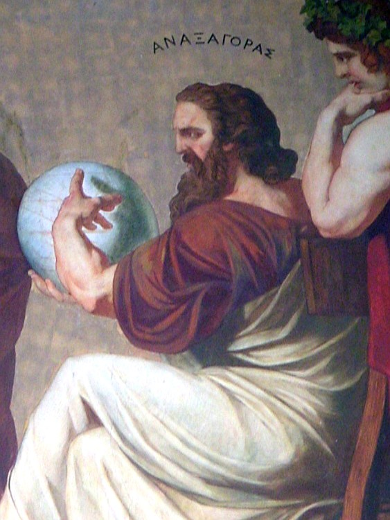 Detail of the right-hand facade fresco, showing Anaxagoras. National and Kapodistrian University of Athens.